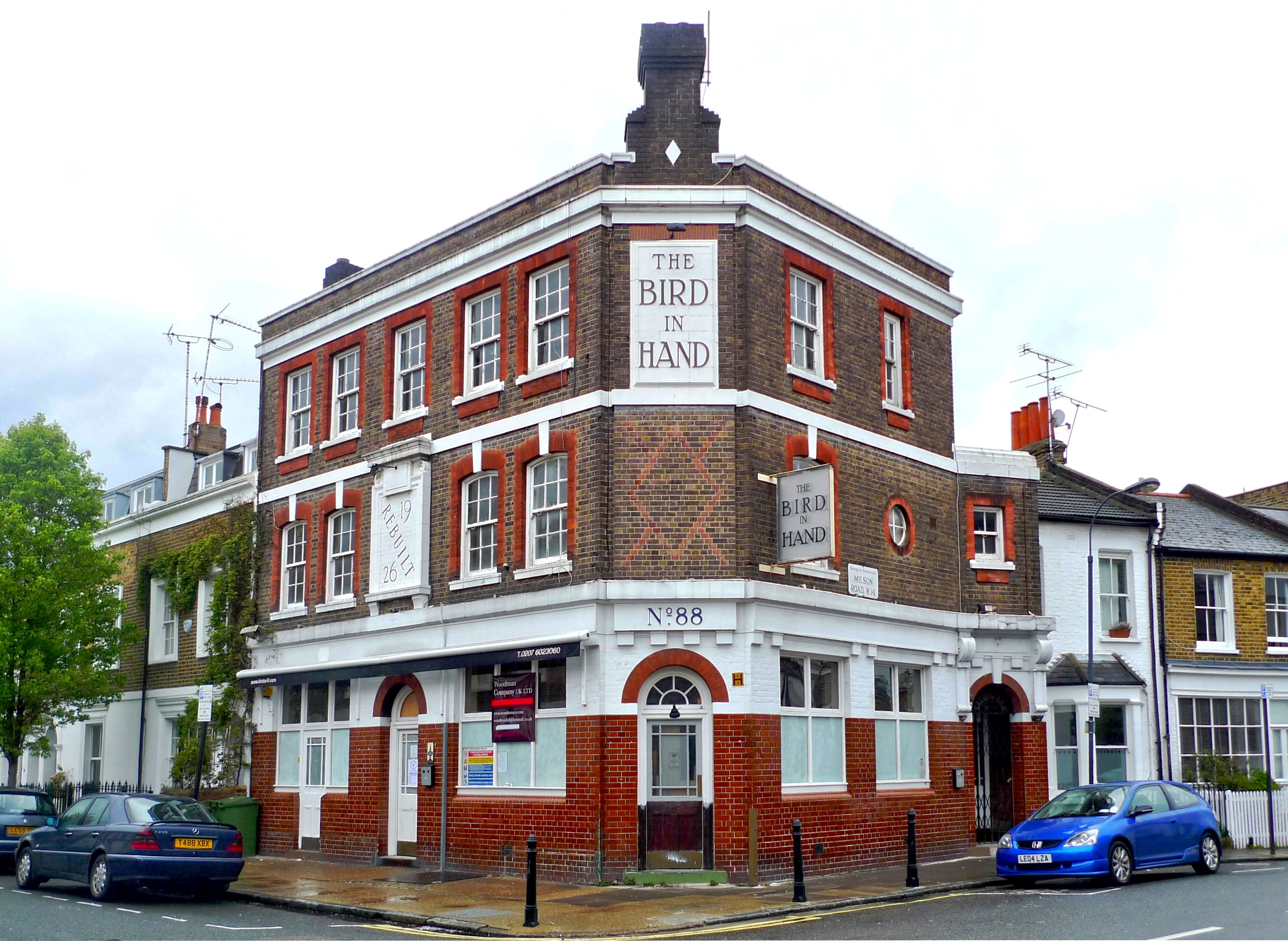 Seems as if this corner pub has now closed. Address: 88 Masbro Road (formerly Masbro Road North). Links: Fancyapint Pubs Galore Beer in the Evening Dead Pubs (history)